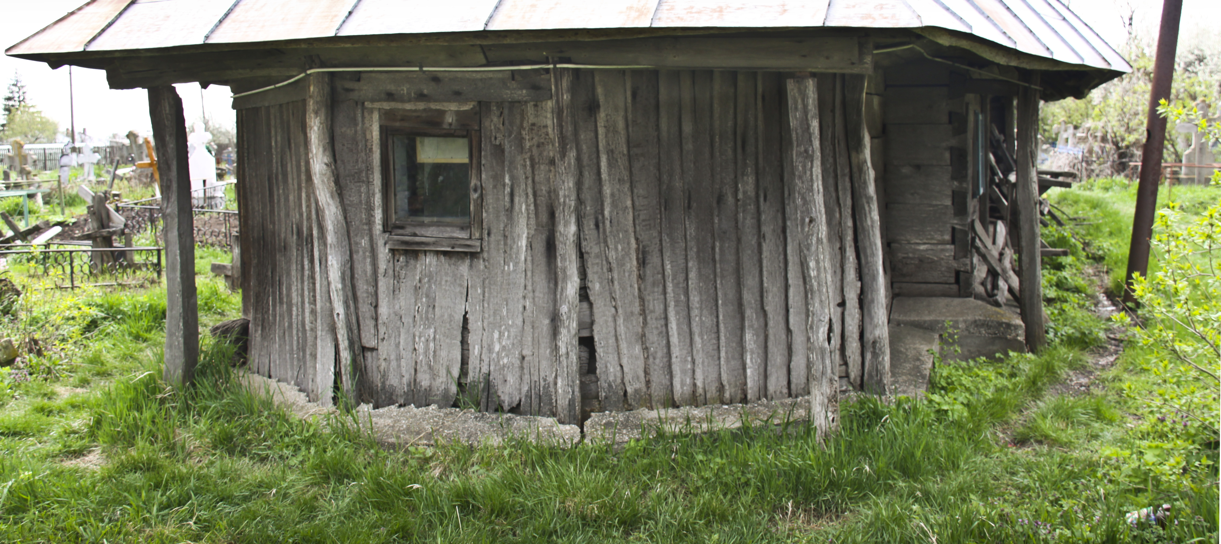 Sericu, Teleorman county, Romania: the wooden church.